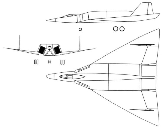 The Convair Kingfish's greatest strength, however, was its RCS. The plane's relatively small size with engines buried inside the fuselage was a significant contributor to its stealth technology, and the Kingfish also retained pyro-ceram material along the wing leading edges and engine nozzles to absorb radar waves. I